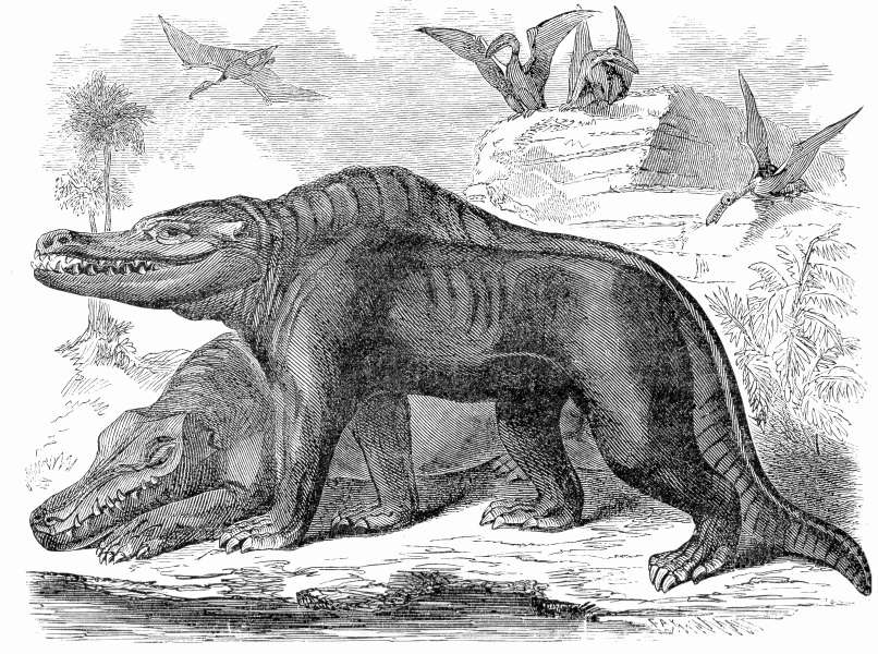 Reconstruction of Megalosaurus and Pterodactylus by Samuel Griswold Goodrich from Illustrated Natural History of the Animal Kingdom (New York: Derby & Jackson, 1859).